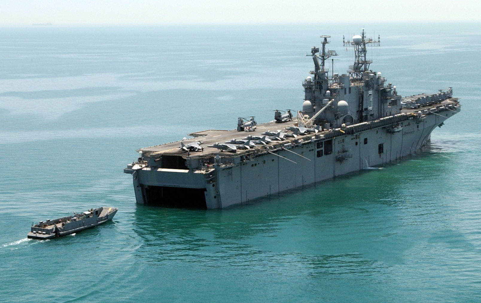 A Landing Craft Utility (LCU) returns to the well deck of USS Belleau Wood (LHA 3) during a Marine Expeditionary Unit (MEU) offload. The landing craft is transporting Marines, vehicles and their gear to the shores of Kuwait.